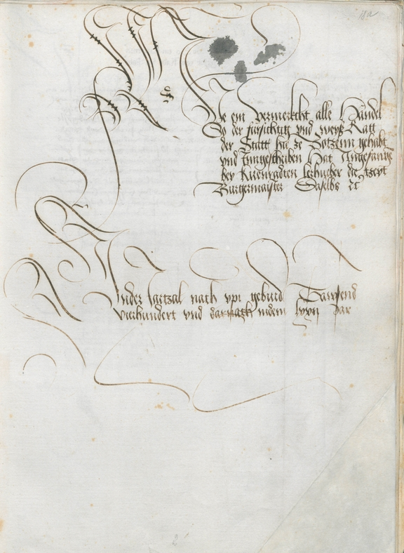 Frontispice of the Towns Register, the so called 'Stadtbuch', of Bozen-Bolzano (South Tyrol) from 1472